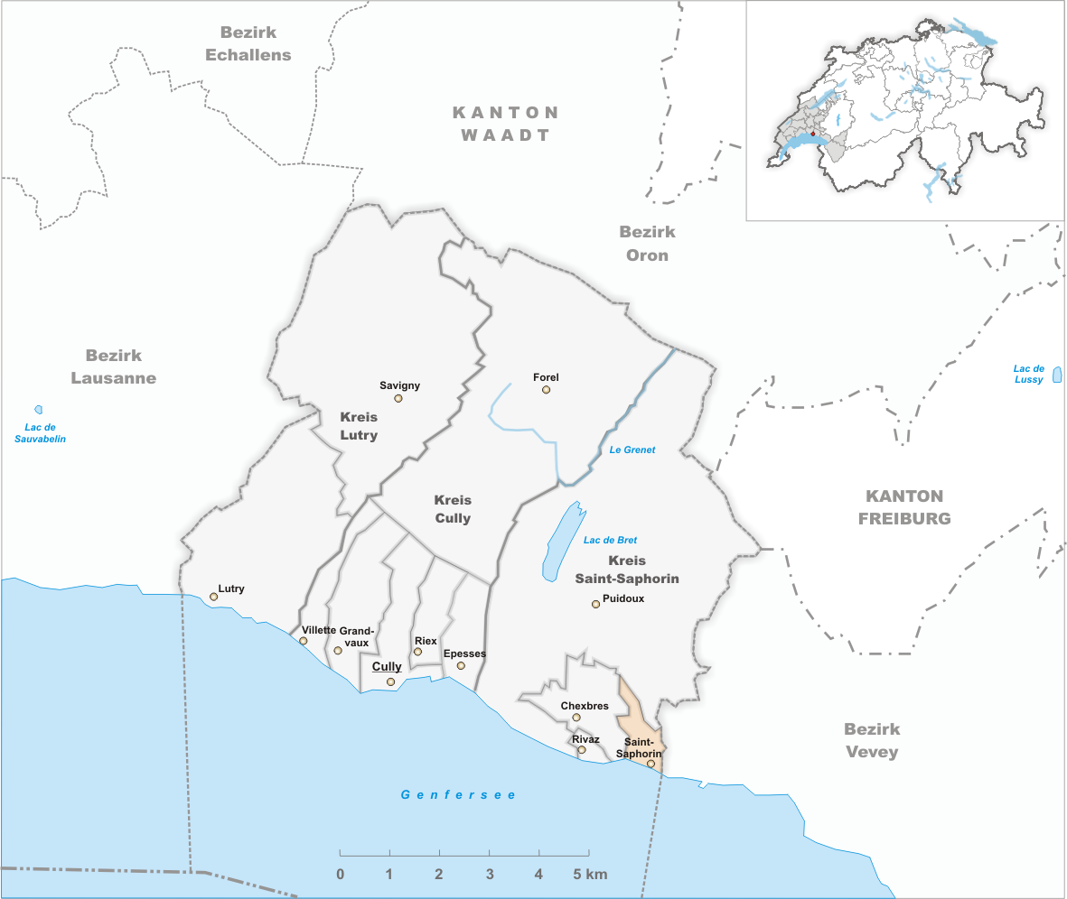 Municipality Saint-Saphorin